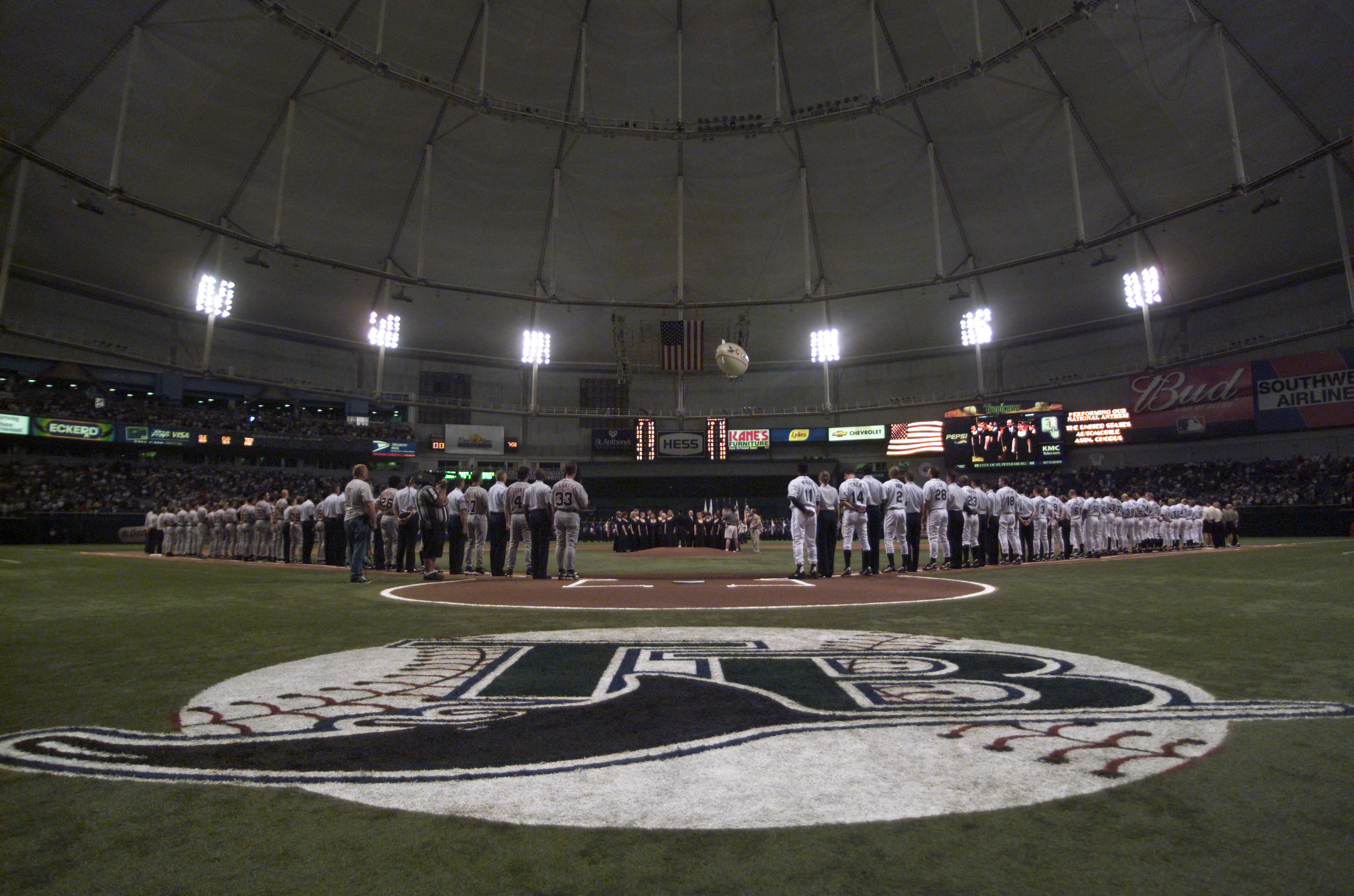 The Tampa Bay Devil Rays Major League Baseball club, right, and the Detroit Tigers salute the military as part of their Opening Day celebration on April 2, 2002.